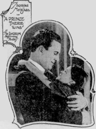 Newspaper advertisement for the American film A Prince There Was (1921) with Peaches Jackson and Thomas Meighan, overlapping ads for other films removed from image, on page 6 of the December 31, 1921 Duluth Herald.